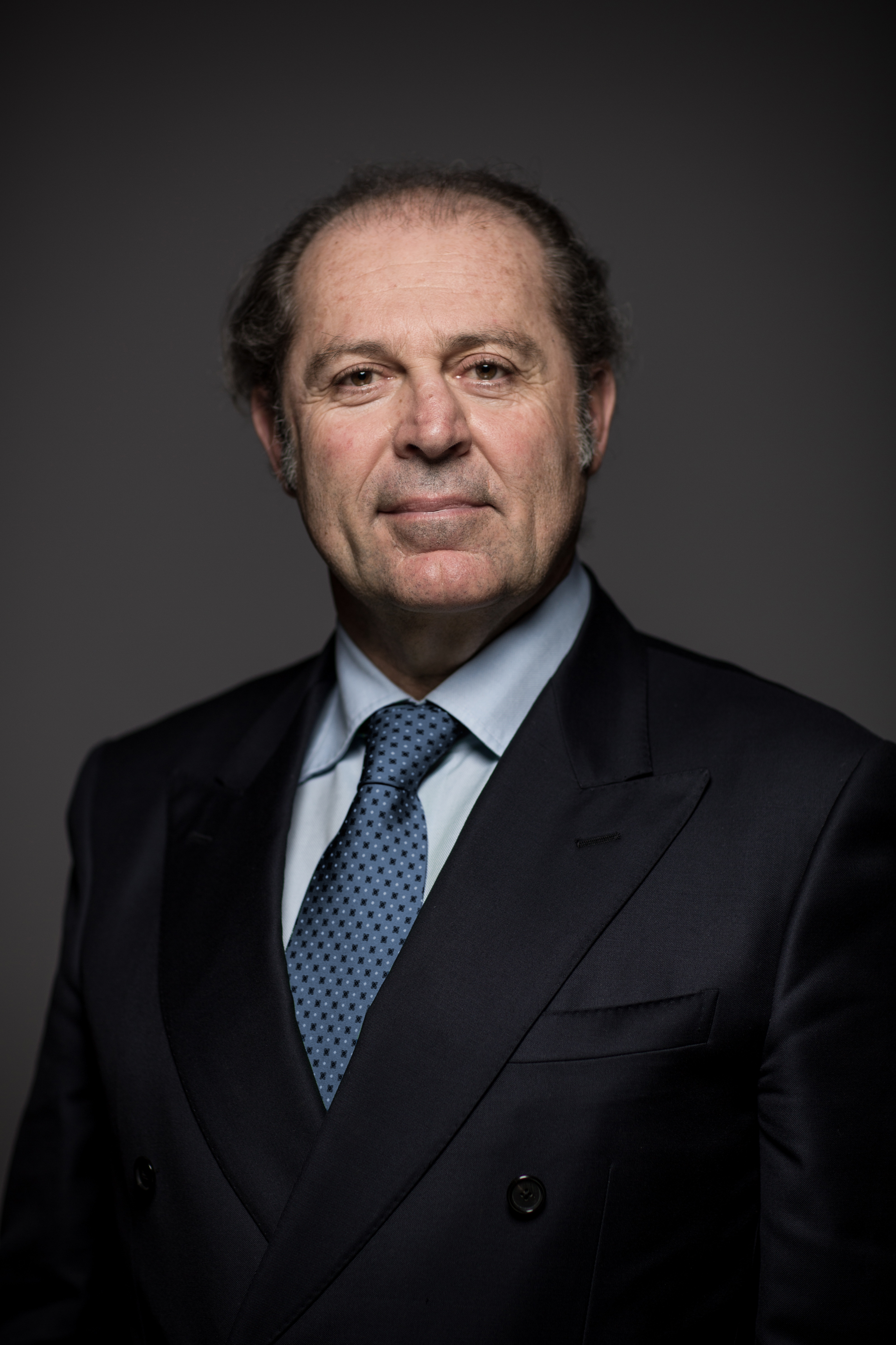 Philippe Donnet - Managing Director and Chief Executive Officer, Generali